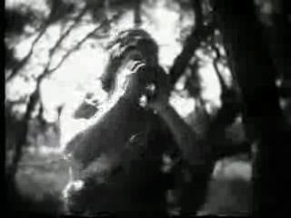 Frank Merrill as Tarzan, giving the first recorded "Tarzan Yell" in Tarzan the Tiger (1929).